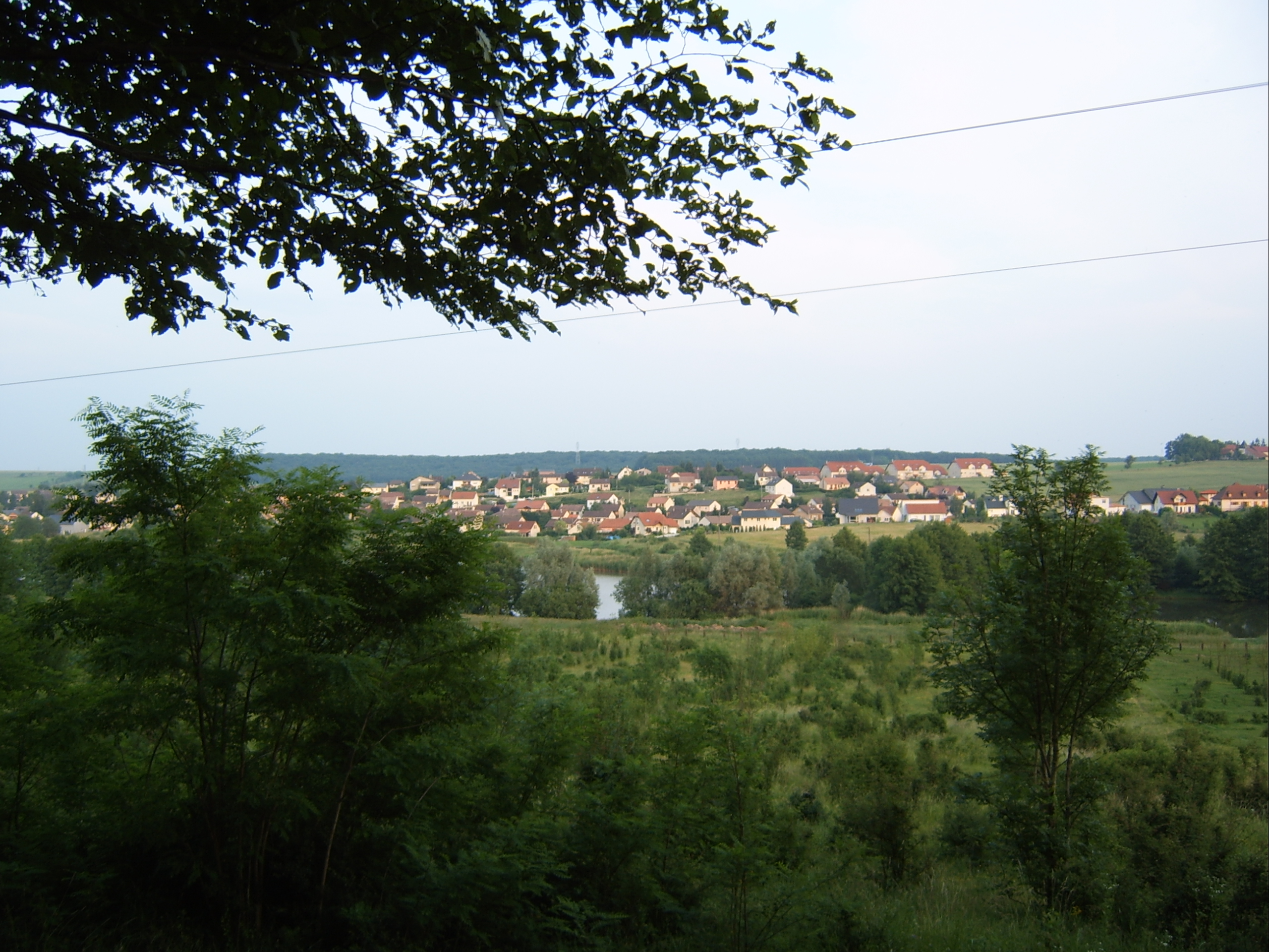 Woustviller